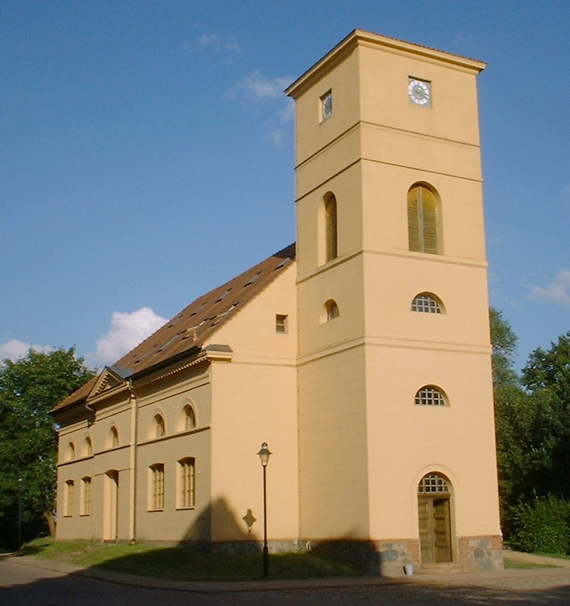 Church in Temnitzquell-Netzeband in Brandenburg, Germany